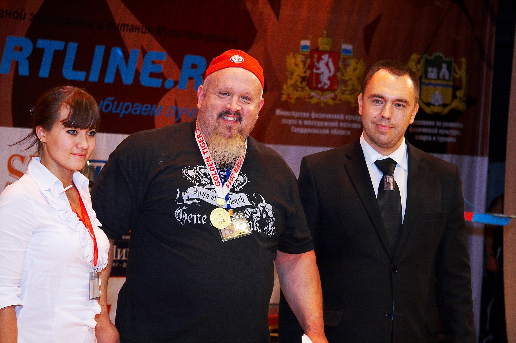 Судья международной категории